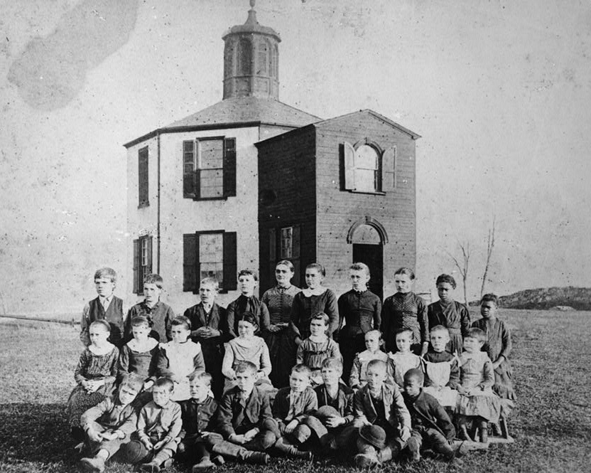 Belle School, in East Caln Twp, Chester County, PA Photo in HABS, Library of Congress